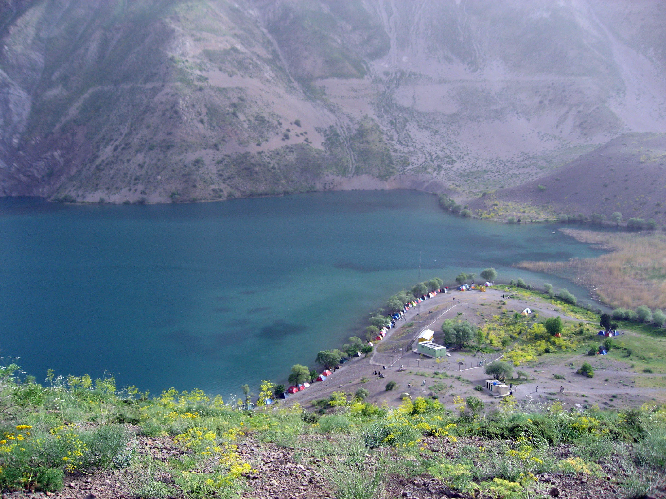 ازنا ، ارتفاعات رشته کوه اشترانکوه ، دریاچه گهر - مسیر پیاده روی از درود به سمت روستای پنبه کار تا دریاچه میباشد.